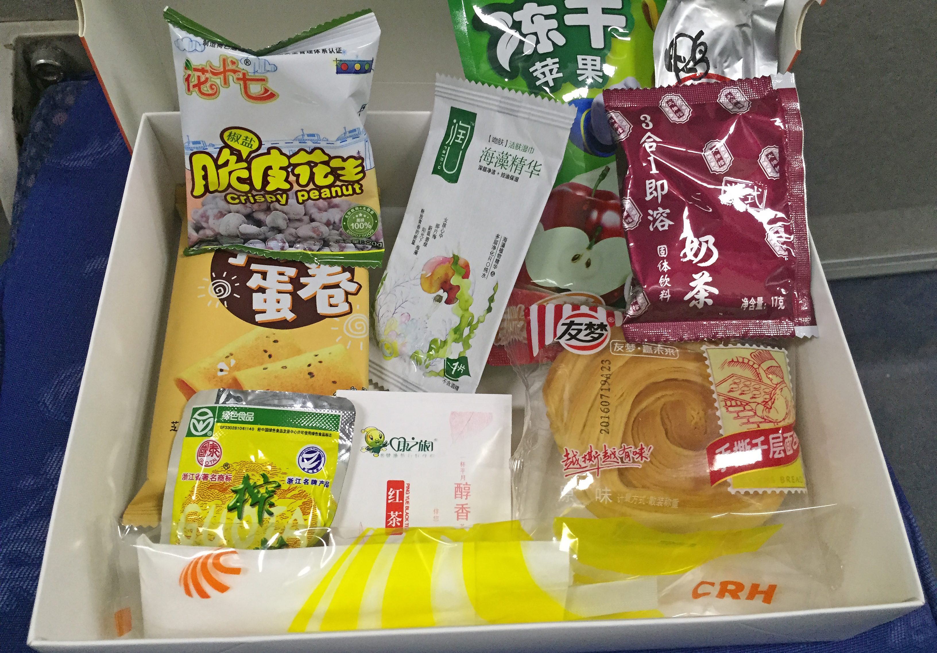 Issued near Qingsheng. The "supper on EMU sleeper" is no big deal, just a snackbox containing crispy peanuts, egg rolls, dried apples, a bread, a duck wing, instant milk tea, black tea bag, zhacai, and eating utensils.